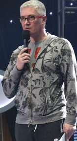 Polish journalist Artur Orzech, host of Polish National Final of ESC 2016